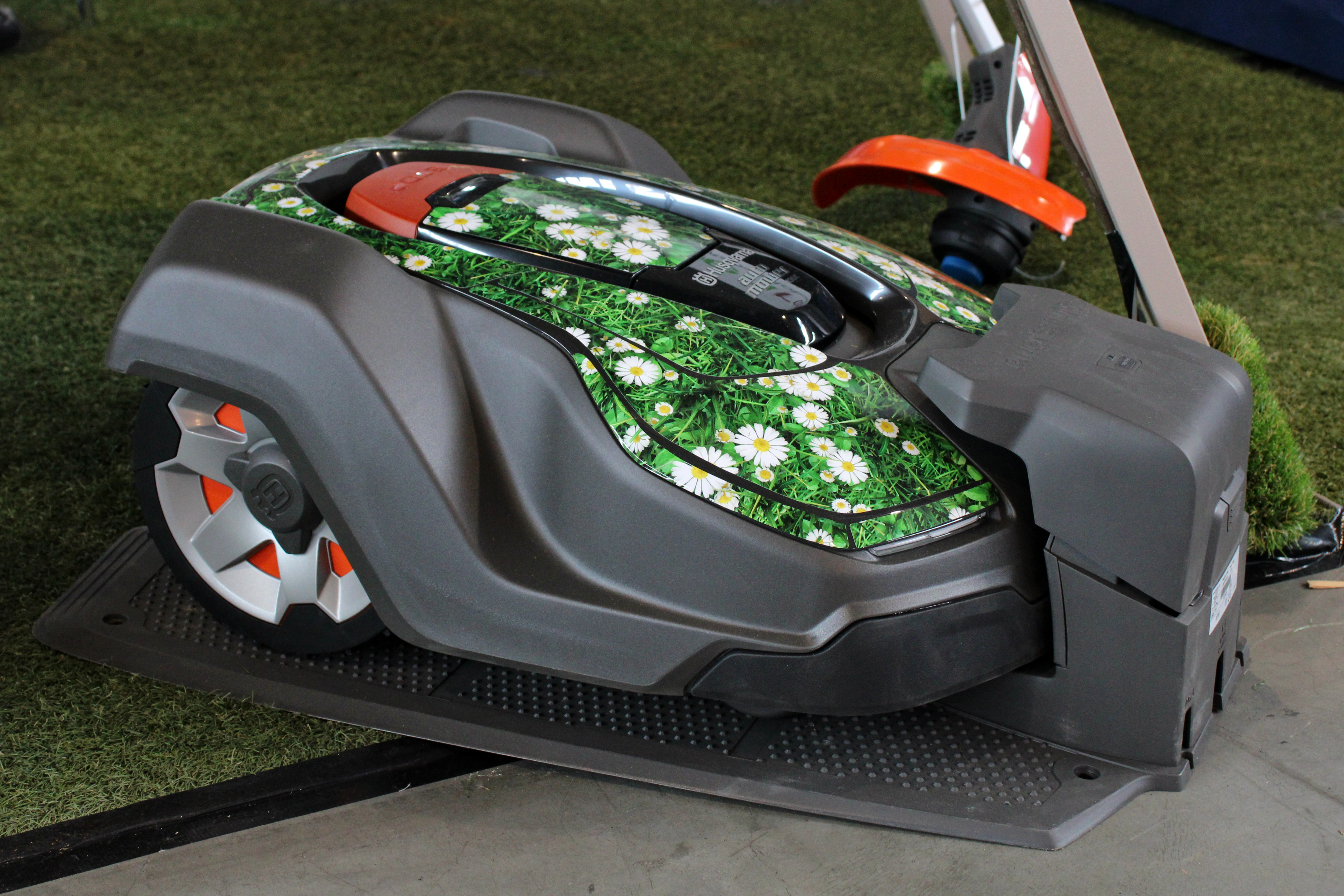 Husqvarna Automower at Frühjahrsmessen Stuttgart 2019